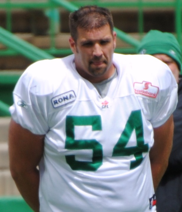 Jeremy O'Day during a Saskatchewan Roughriders practice.